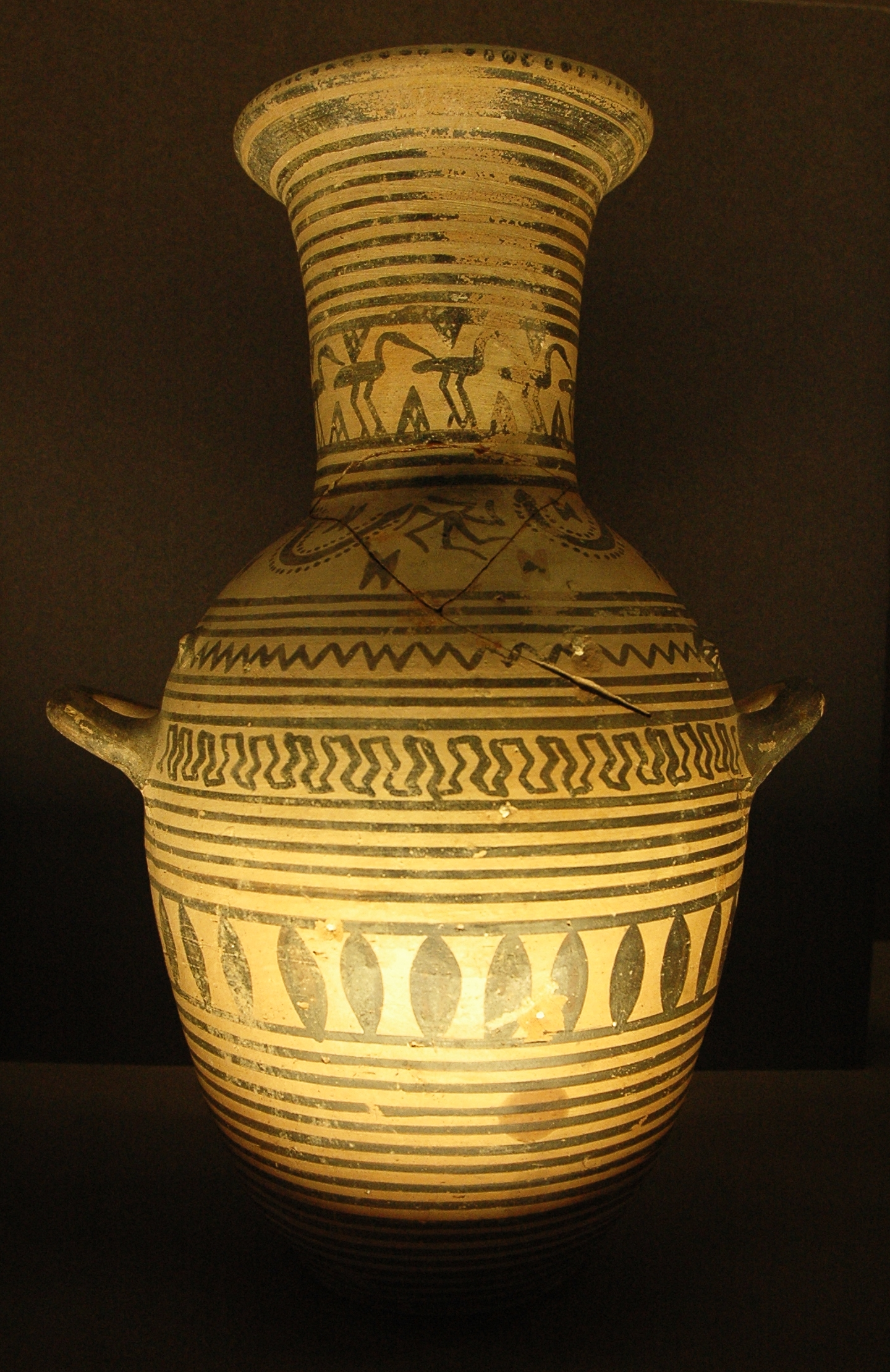 Boeotian hydria with birds, ca. 700 BC–675 BC (Boeotian Geometric).